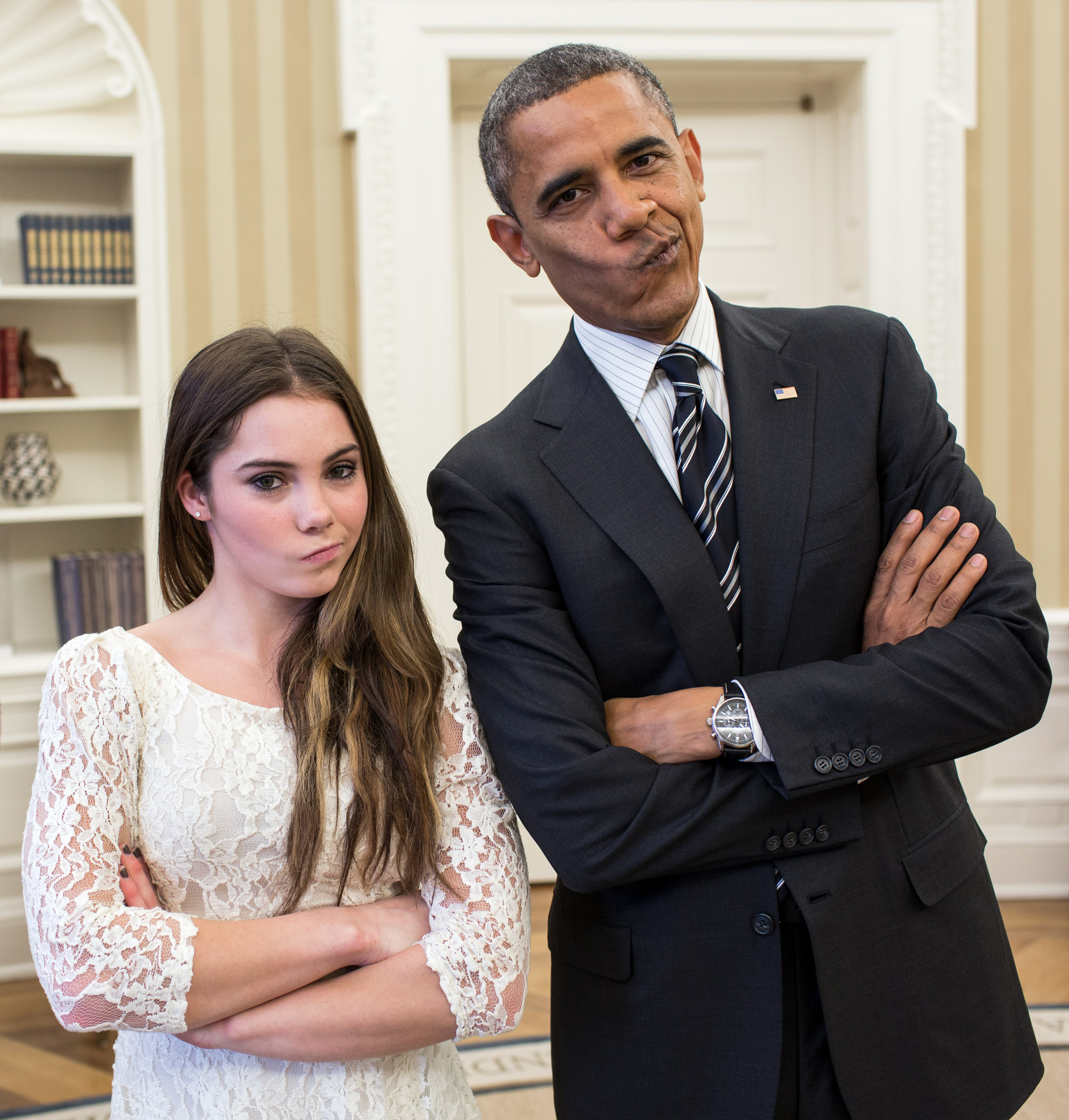 President Barack Obama jokingly mimics U.S. Olympic gymnast McKayla Maroney's "not impressed" look while greeting members of the 2012 U.S. Olympic gymnastics team in the Oval Office, November 15, 2012. (Official White House photo by Pete Souza.)